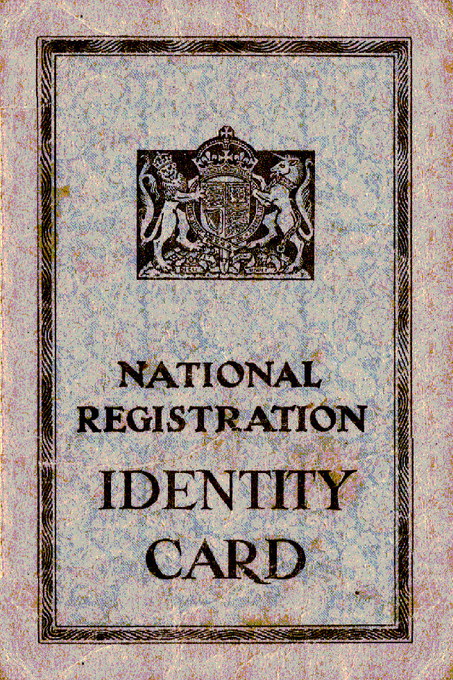 Scan of the front cover of a British (adult) WW2 Identity Card dated 1943